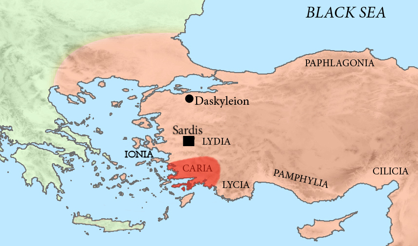 Caria map